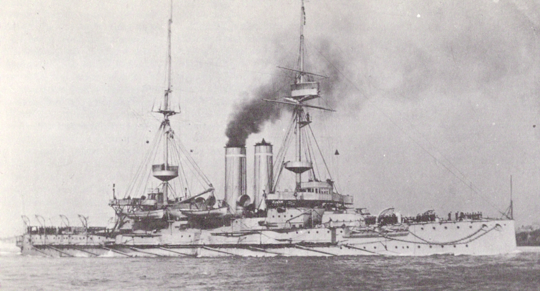 British battleship HMS Goliath after the addition of fire control and wireless rig.